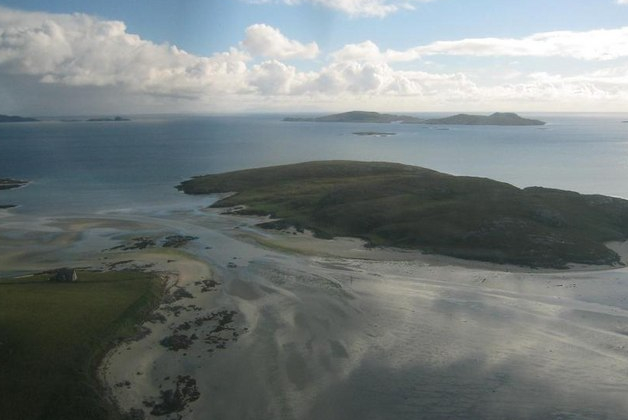 Orasaigh The island of Orasaigh (Orasay) off the coast of Barra viewed from the plane en route to Benbecula